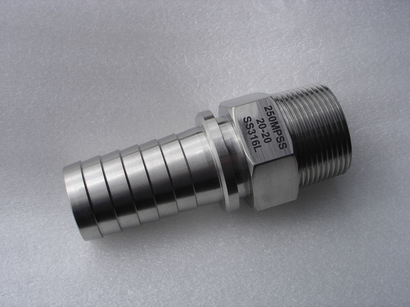 A 250MPSS-20-20 (material Stainless Steel 316L) laser engraved by a Spirit GX at Aerocom Specialty Fittings